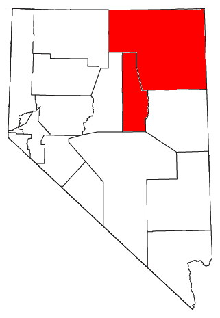 Locator map of the Elko Micropolitan Statistical Area in the northeastern part of the U.S. state of Nevada.